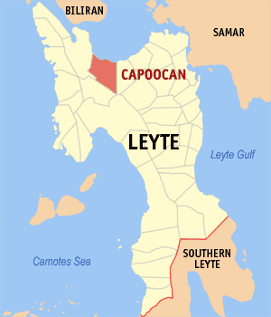 Map of Leyte showing the location of Capoocan